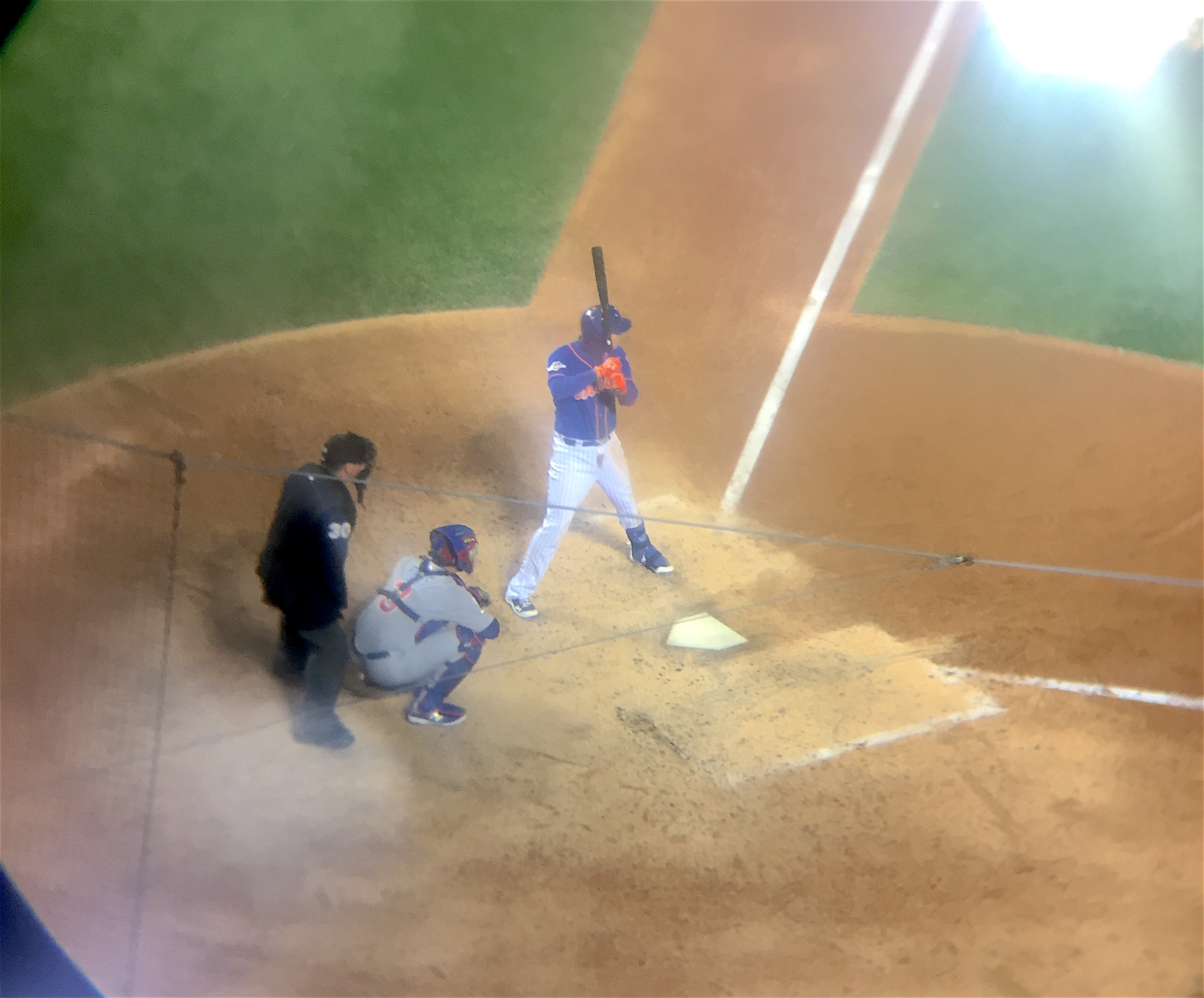 Wilmer Flores of the New York Mets takes an at-bat during the 2015 National League Championship Series against the Chicago Cubs.